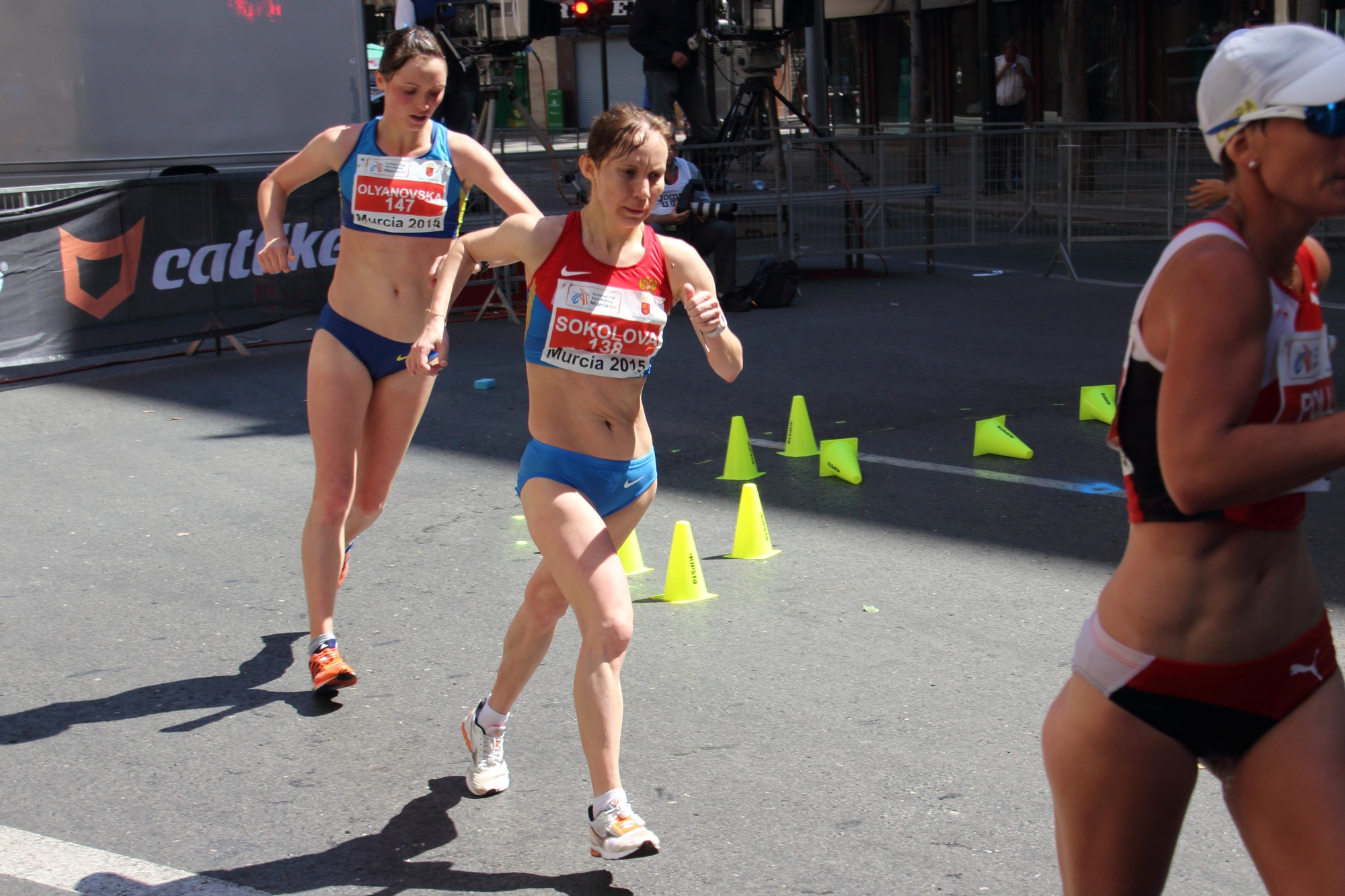 Vera Sokolova (138) y Lyudmyla Olyanovska (147) in the European Cup Race Walking 2015 (Murcia, Spain).